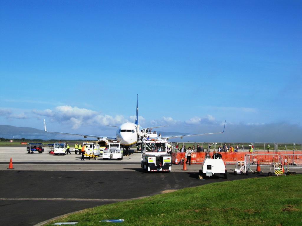 Passengers disembarking at City of Derry Airport.